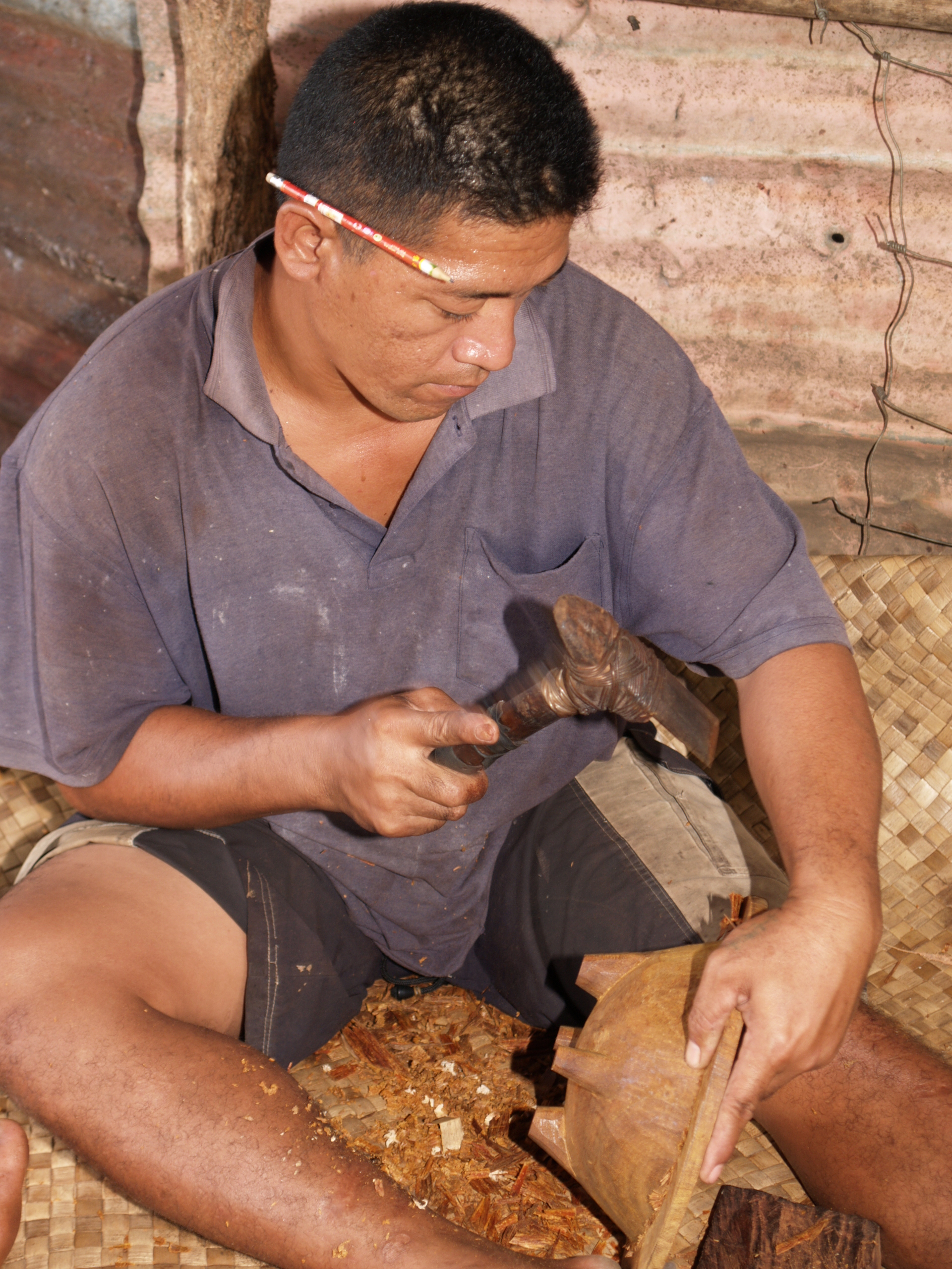 A wood carver is fashioning a kava bowl using a traditional adze that has changed only by the replacement of the stone blade with steel.